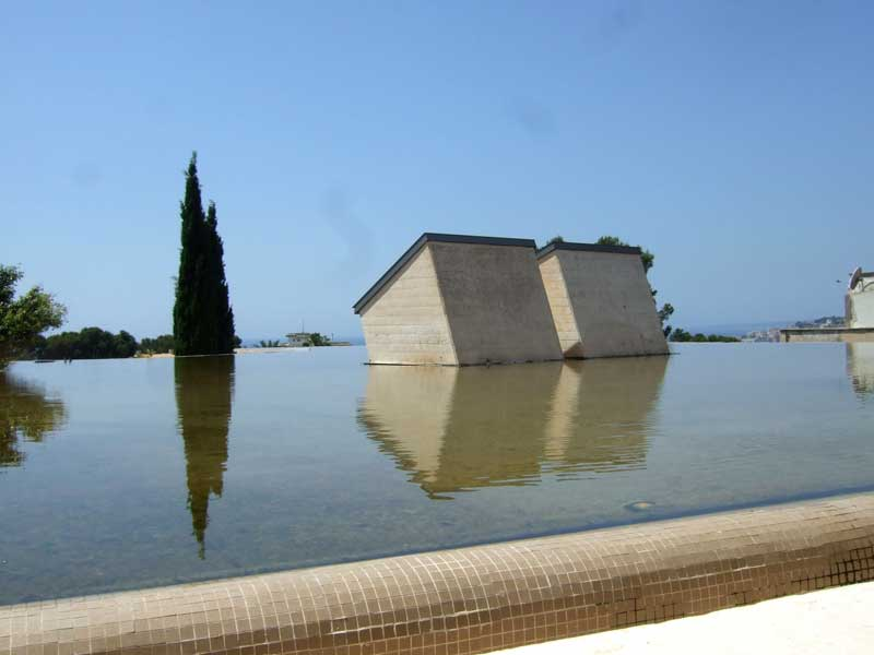 Roof of the Foundation building in Palma (Fundacío Piöar i Joan Miró a Mallorca)